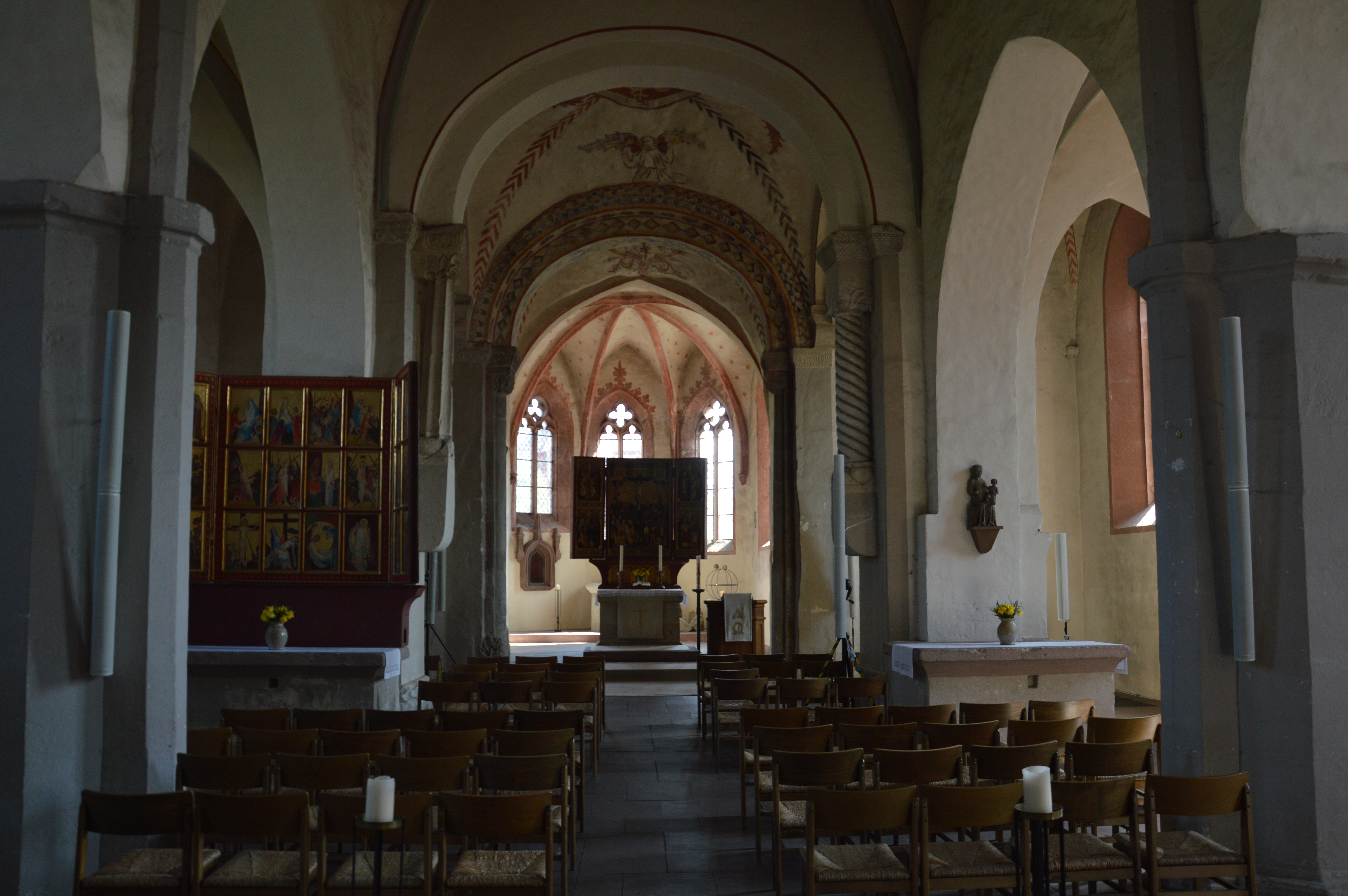 Interior of Klosterkirche Nikolausberg, Göttingen, Germany